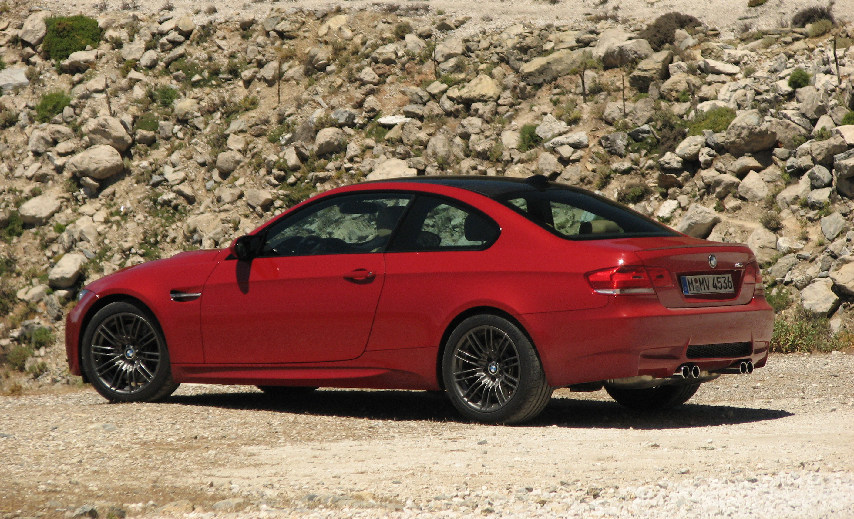 BMW M3 E92 coupe - press presentation in Marbella